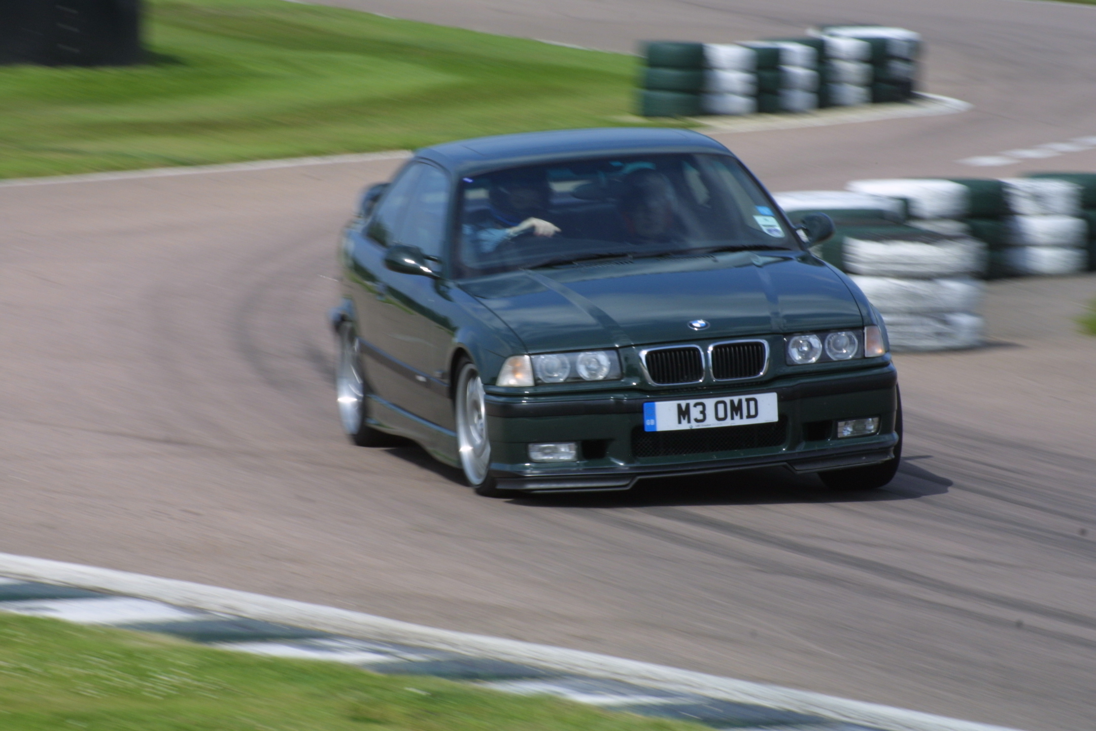 BMW E36 M3 GT Individual, Chris Enright, Goodwood, 2004